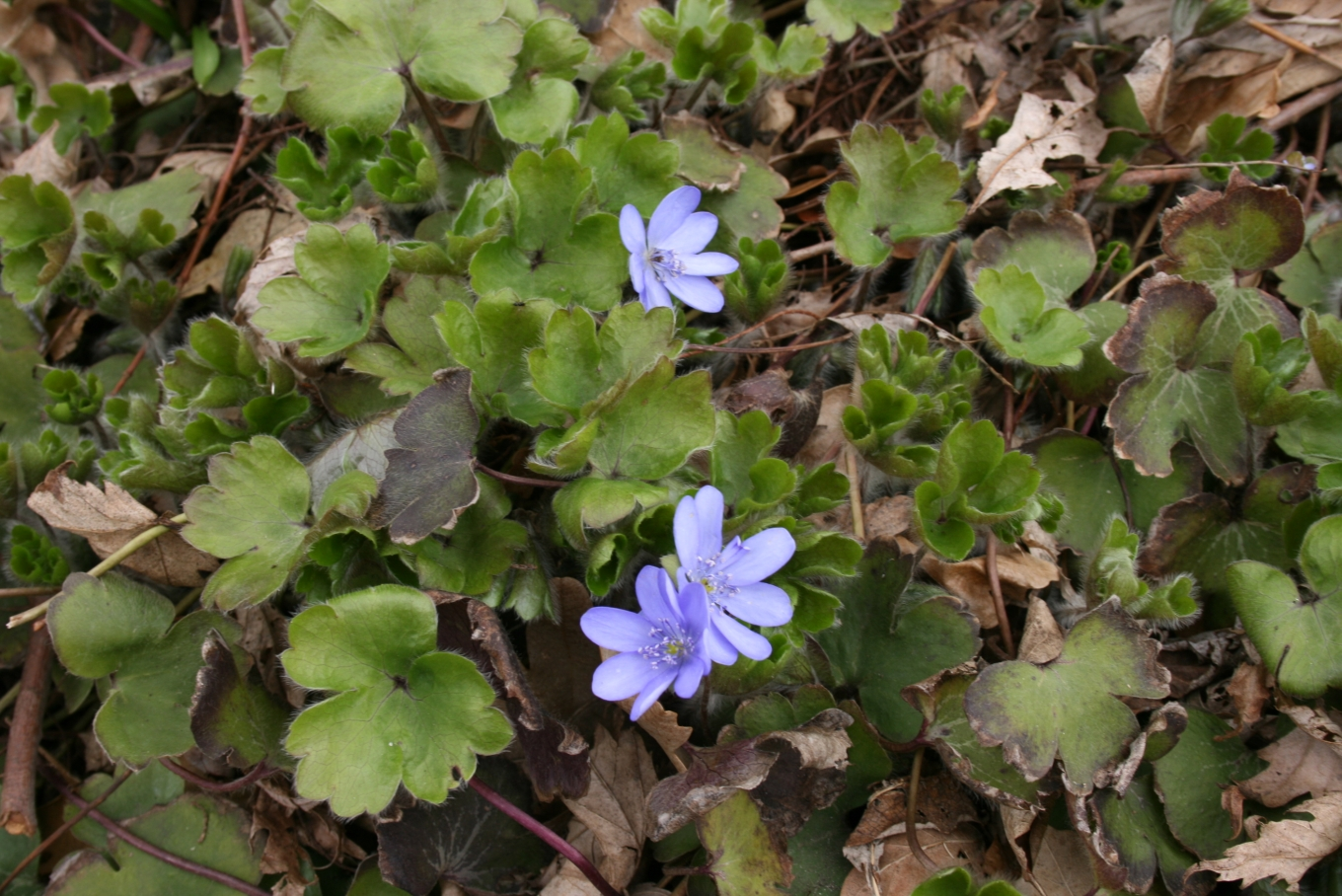 Hepatica transsilvanica: Habitus (Århus Botanical Garden)